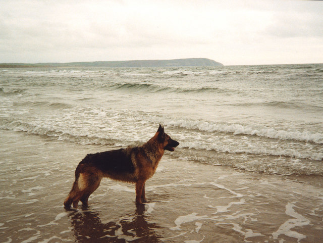 Hell's Mouth beach, low water Cilan Head can be seen in the distance.